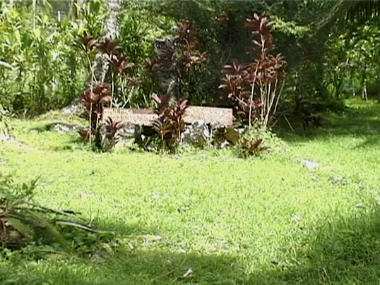 Tau-ma keva (plateforme de discours/Oratory platform) au Koutu d'Arai-te-Tonga